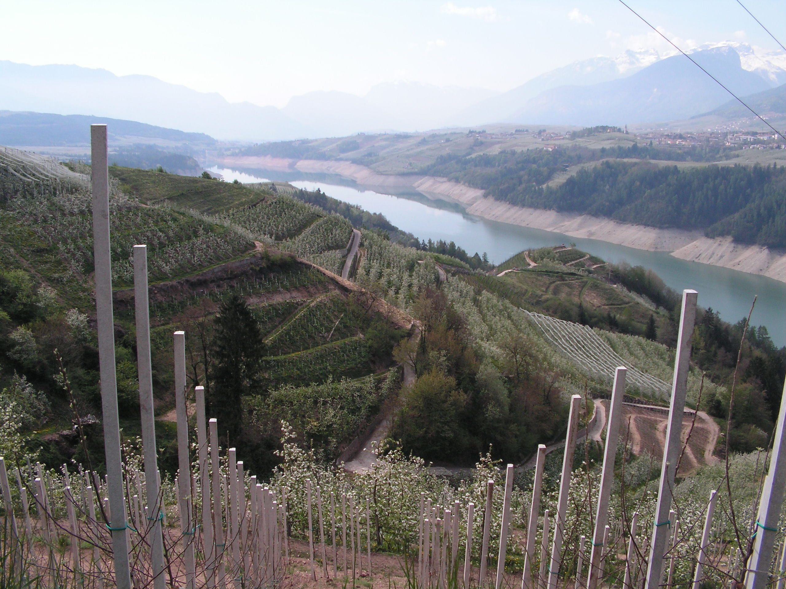 Apple orchards in Val di Non - Italy.